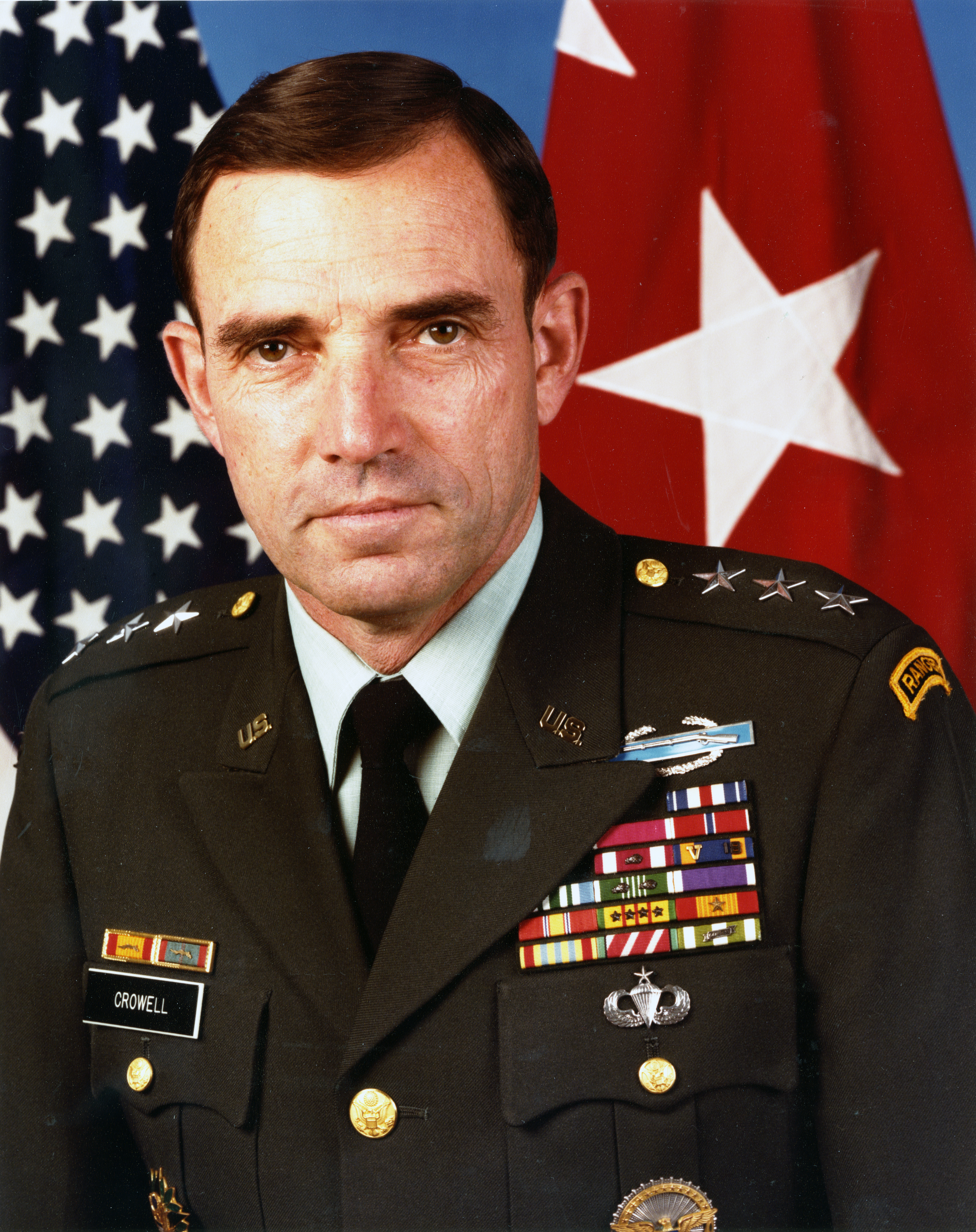 LTG Howard G. Crowell, Chief of Staff, USEUCOM